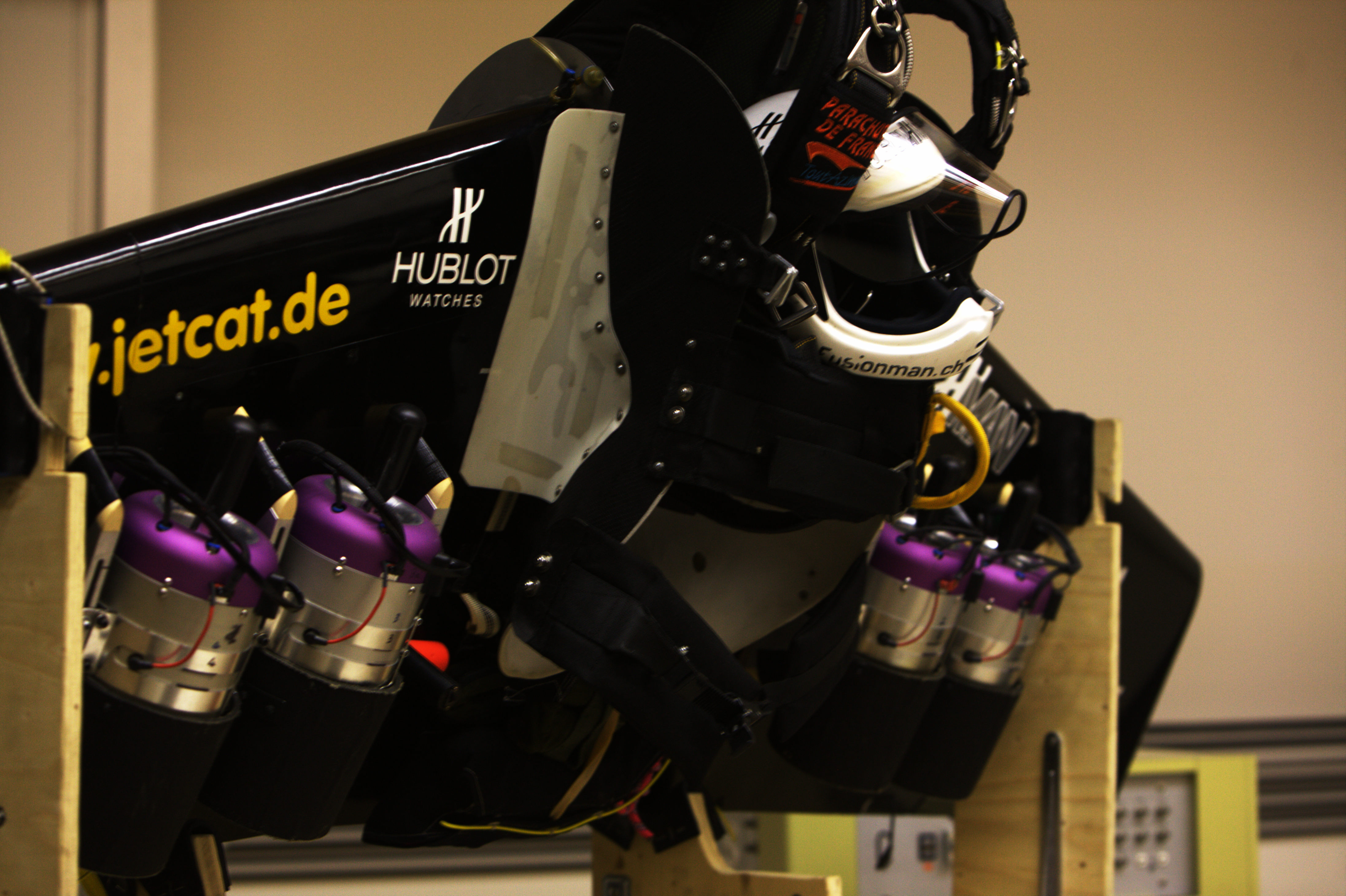 Yves Rossy